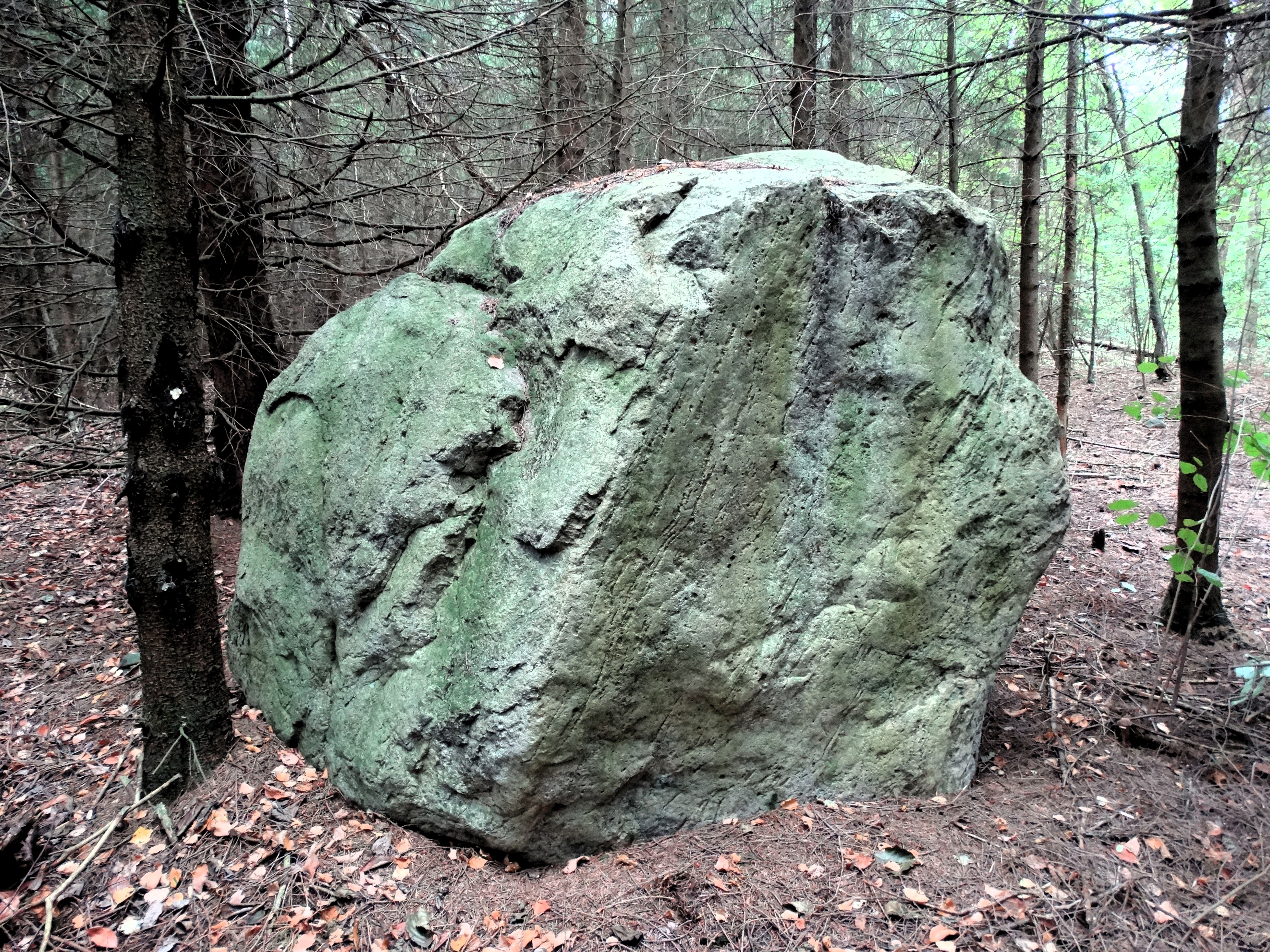 Stone in Varkalės forest, Kaišiadorys District, Lithuania